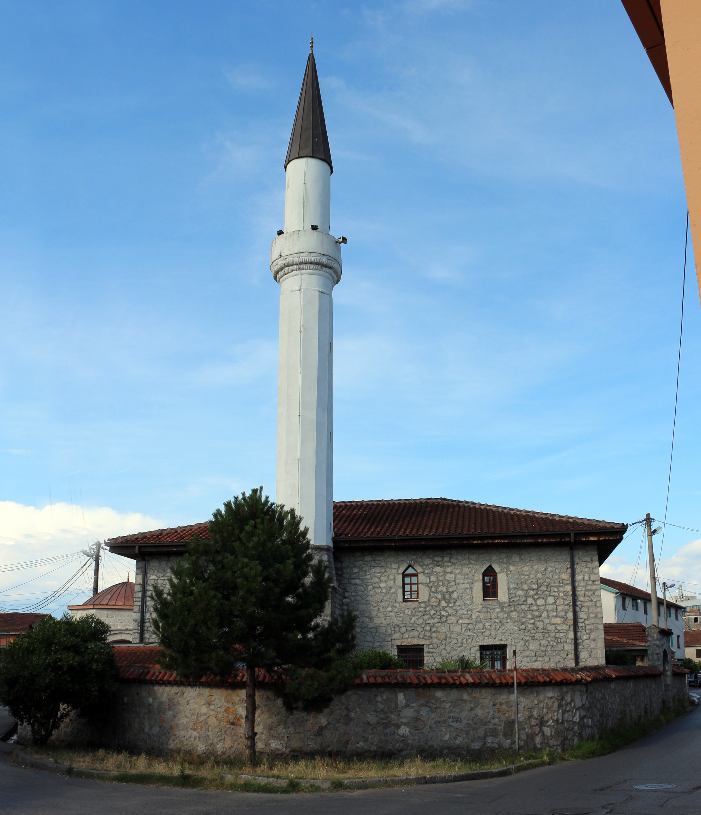 Mosques in Podgorica